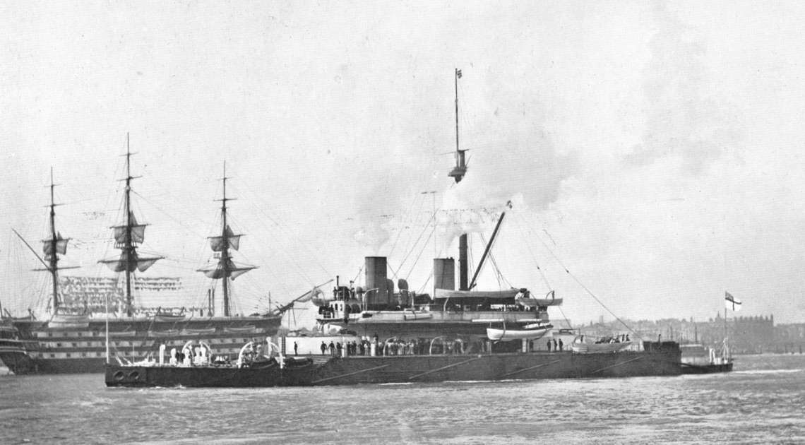 Photograph of British battleship HMS Devastation.